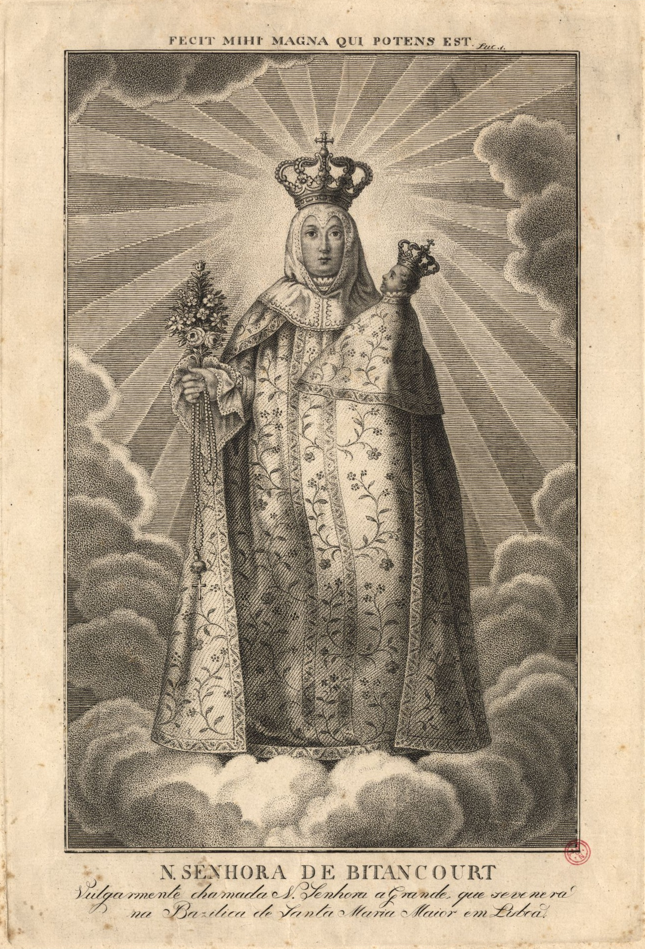 19th-century devotional print dedicated to Our Lady of Bettencourt (or, Our Lady the Great), an image at the Lisbon Cathedral, in Portugal.